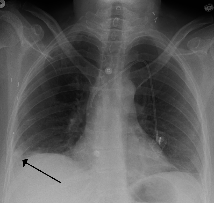 A Hamptons hump in a person with a right low lobe pulmonary embolism